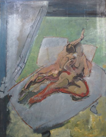 Edmond Boissonnet